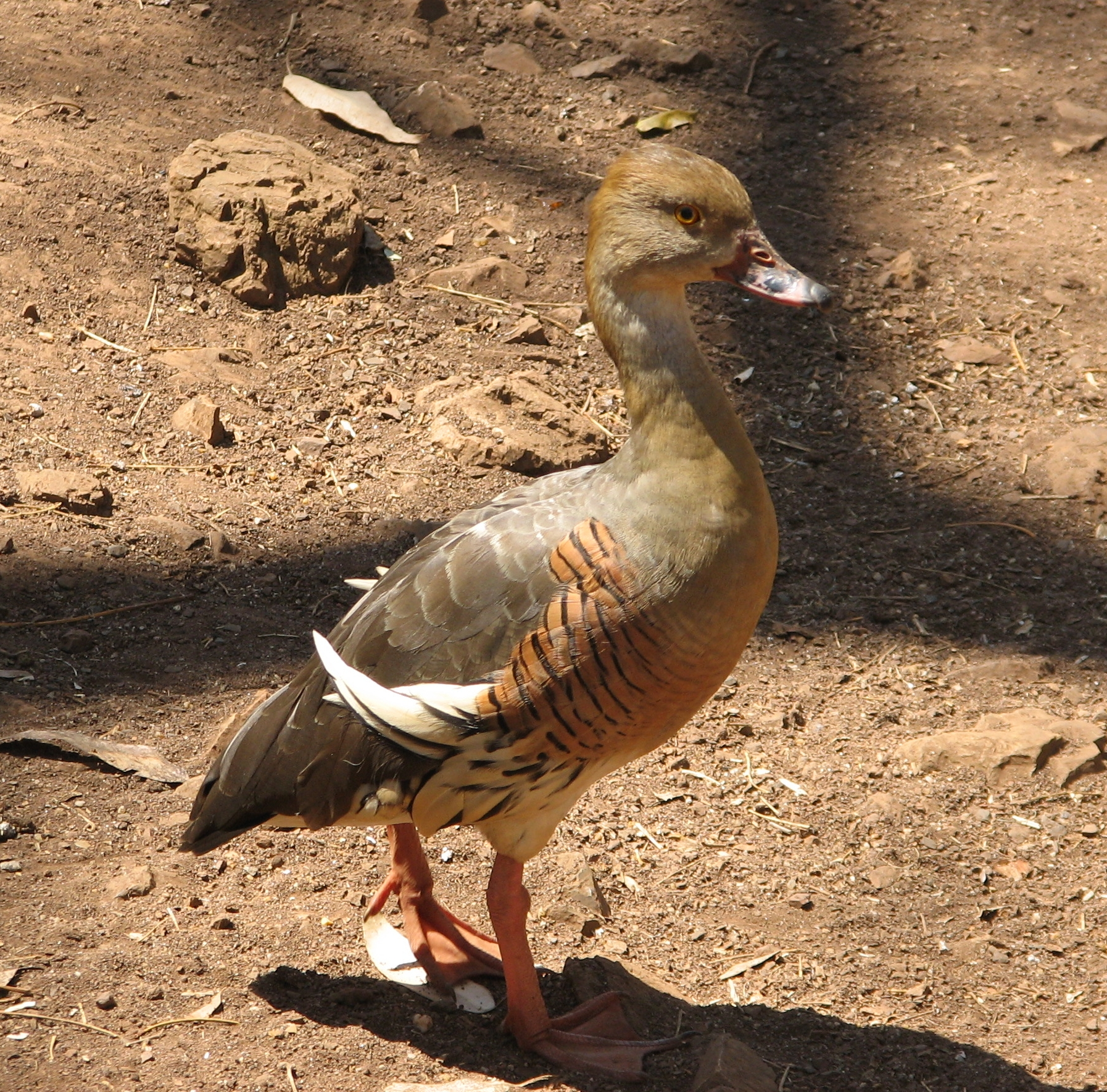 Plumed Whistling Duck found in Central Queensland, Australia